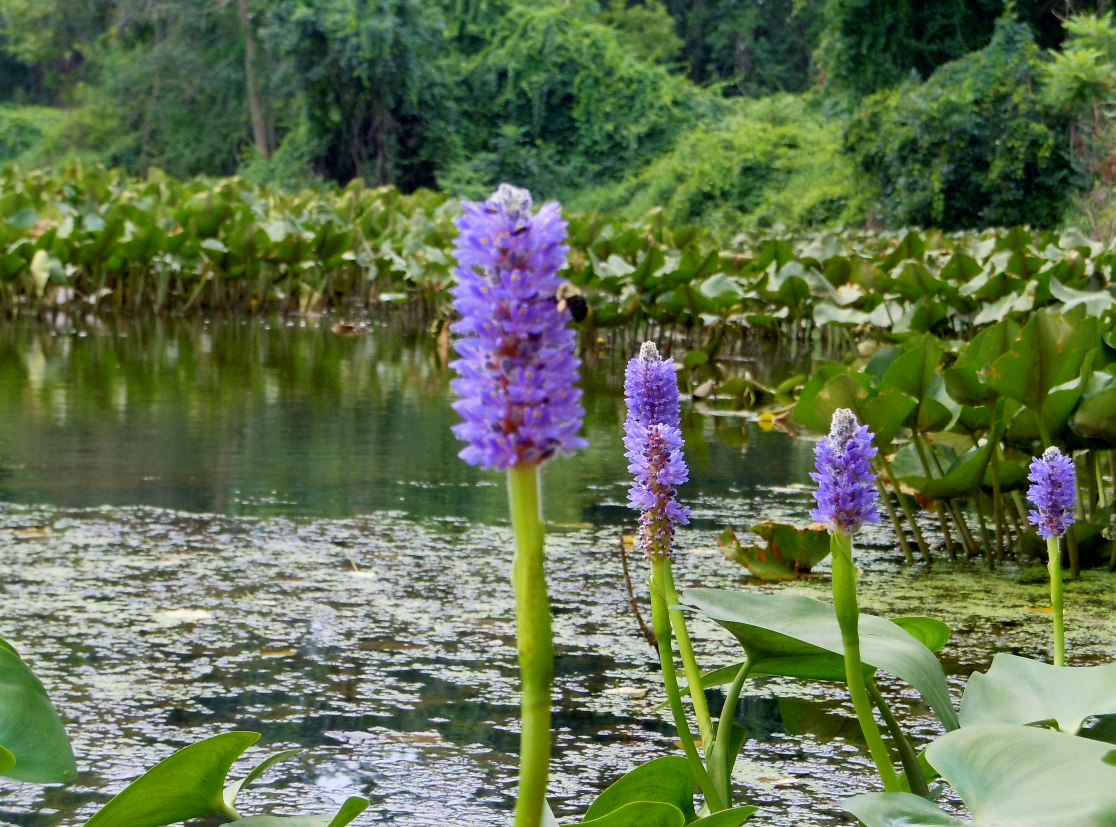 Pickerelweed (Pontederia cordata L.) on Galien River oxbow 2011-08-06